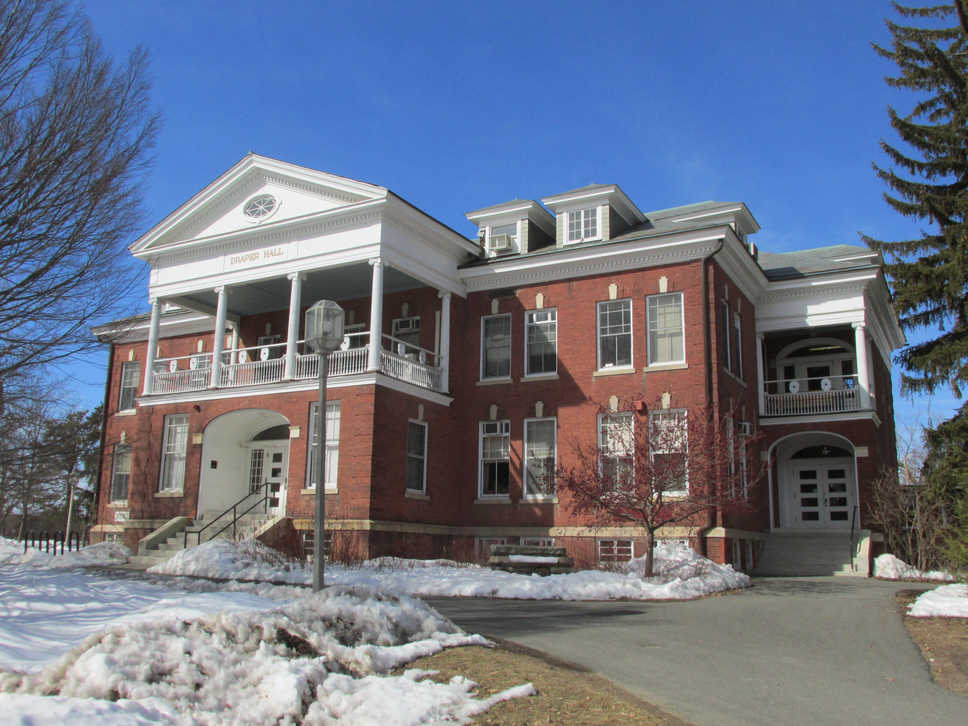 Draper Hall, College of Social and Behavioral Sciences, University of Massachusetts Amherst, Amherst Massachusetts